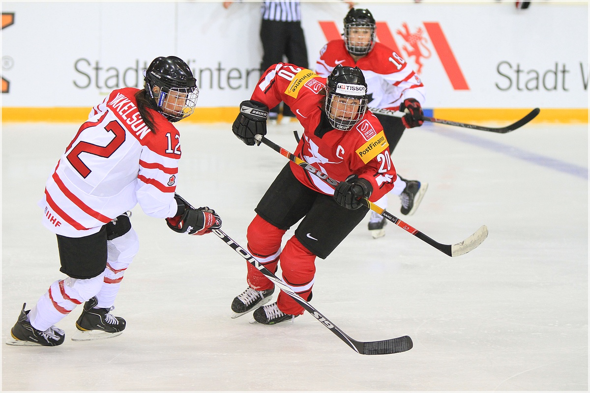 Kathrin Lehman, in red from Switzerland (#20), between Meaghan Mikkelson (l) (#12) and Catherine Ward (r)(#18), both from Canada